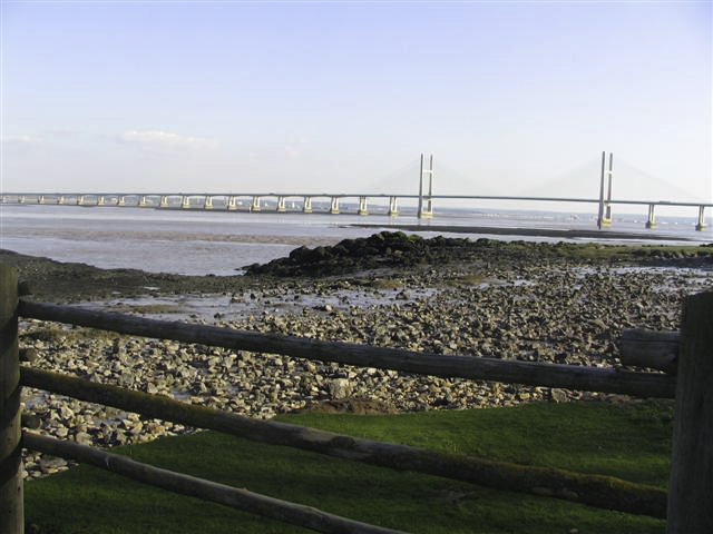 Severn Bridge as viewed from Black Rock picnic site, Portskewett.